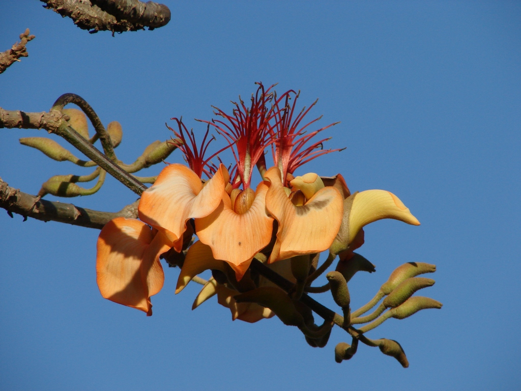 Erythrina velutina Rare tree in Brisbane. I found it in Toowong park near Mt. Coot-tha. Erythrinas known as "coral tree", and more often they have red flowers. This one has orange flowers. Native to South America, where it is called Mulungu.